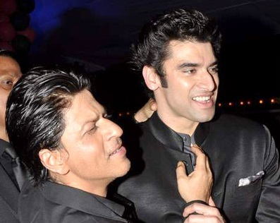 Shahrukh Khan and Nikitin Dheer at the success bash for Chennai Express